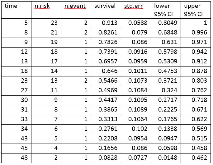 Life table for the aml data set from the R package survival